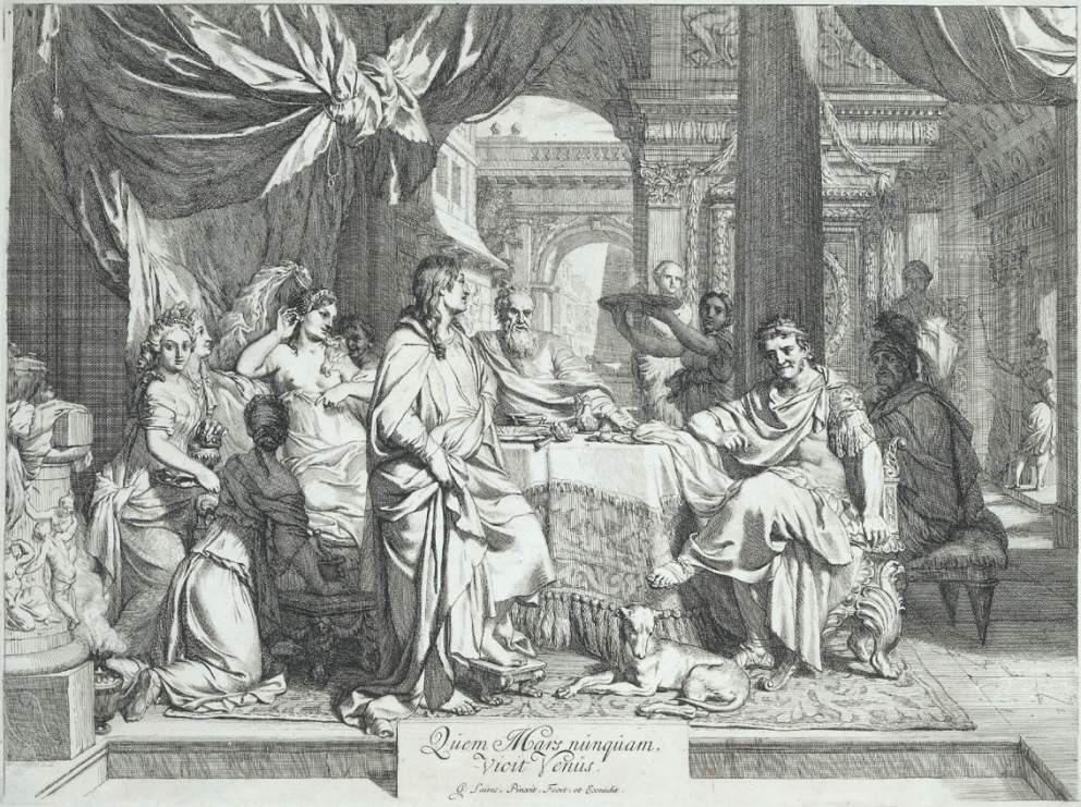 Contemporary etching